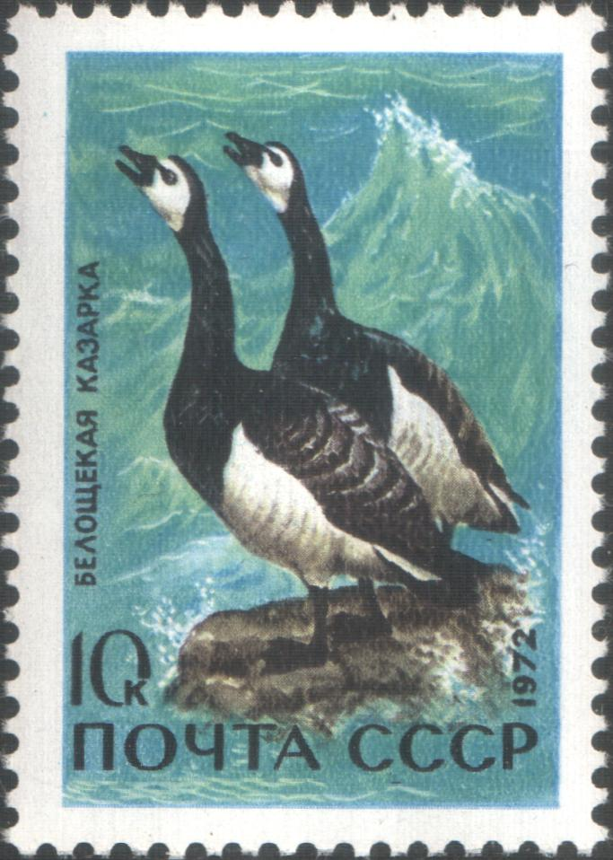 USSR stamp: Barnacle Goose. Series: Sea Birds of the USSR